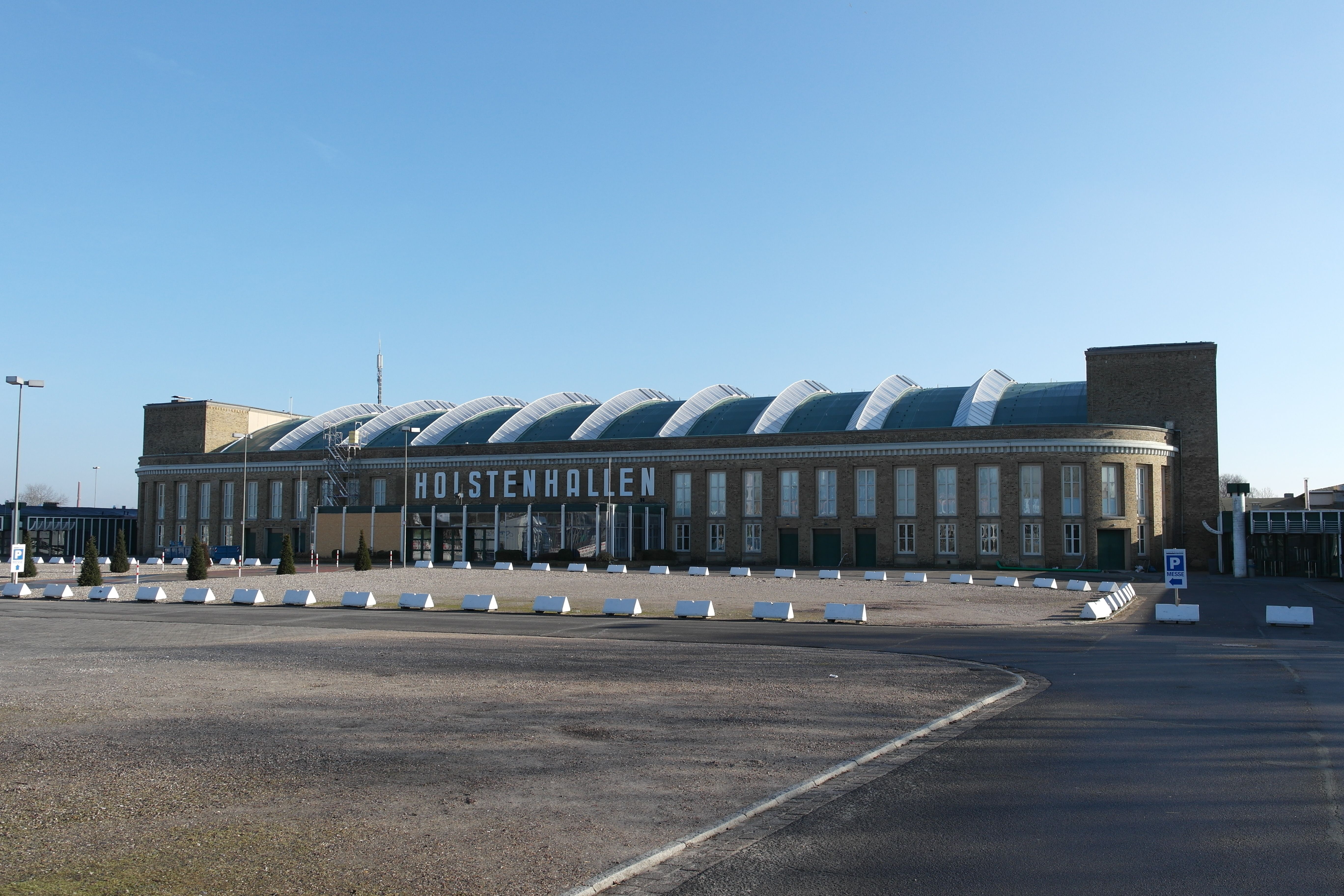 Neumünster Holstenhallen